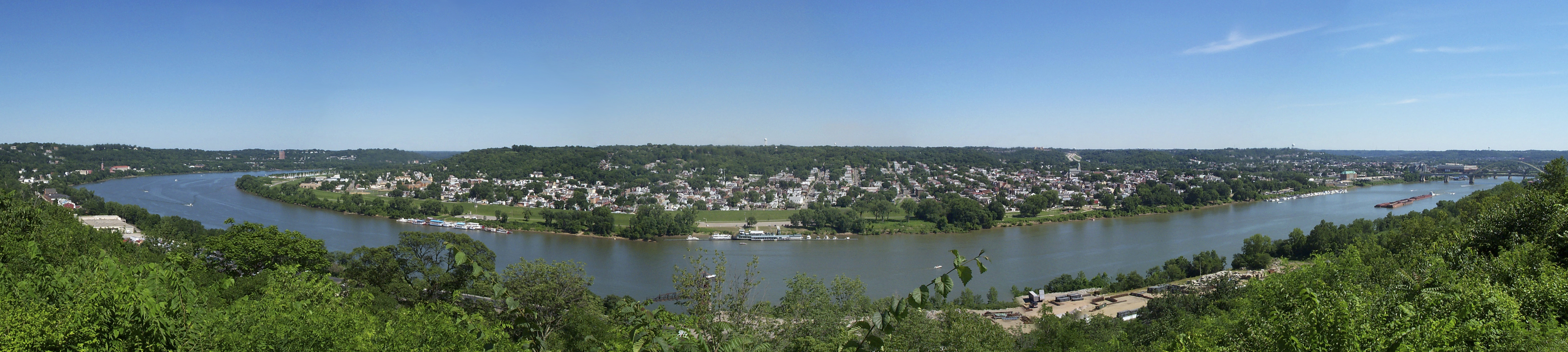 Eden Park overlook of Kentucky across the Ohio River. Panorama of 5 images.